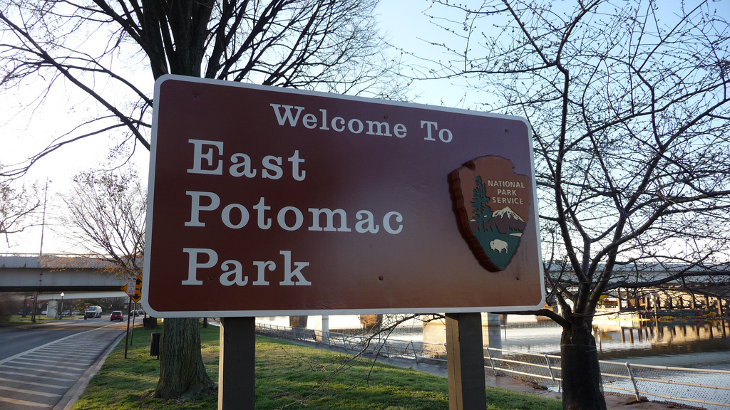 east potomac signage